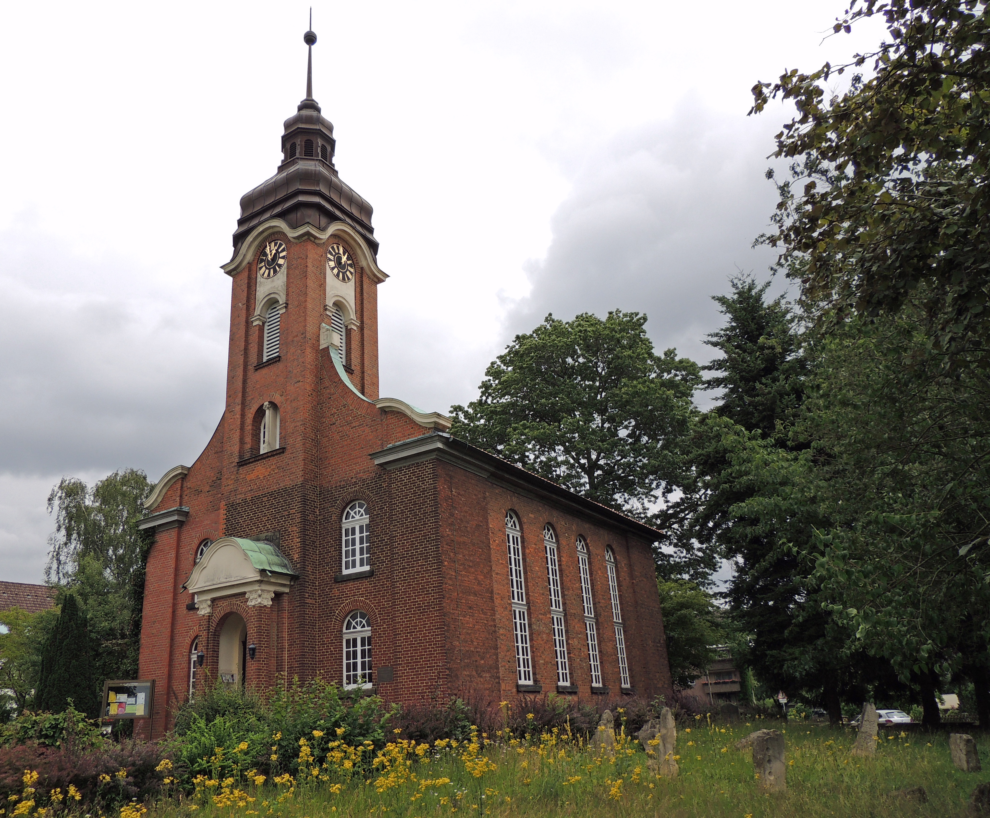 Village church in Altgarbsen